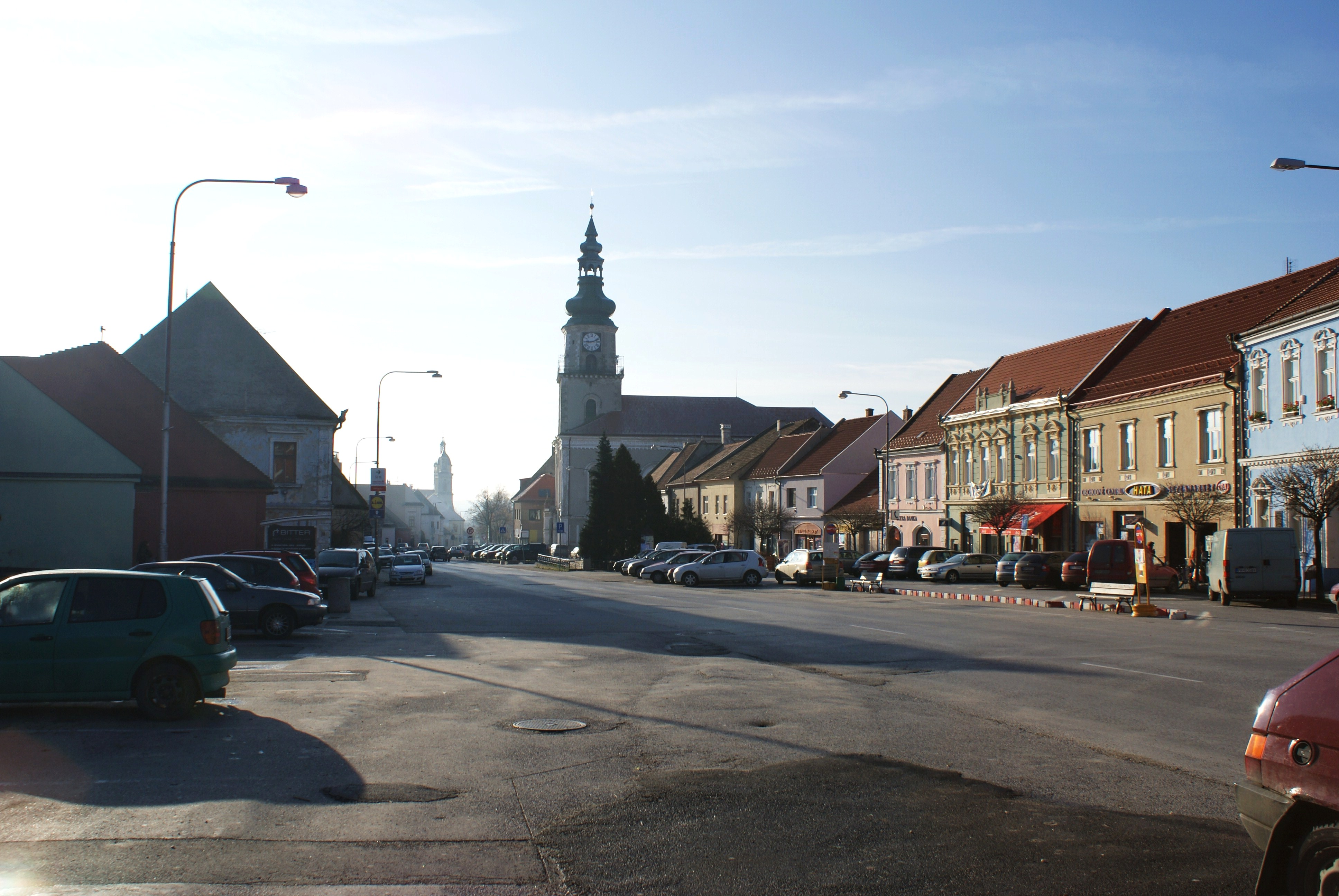 Modra, Slovakia, Central part of the square